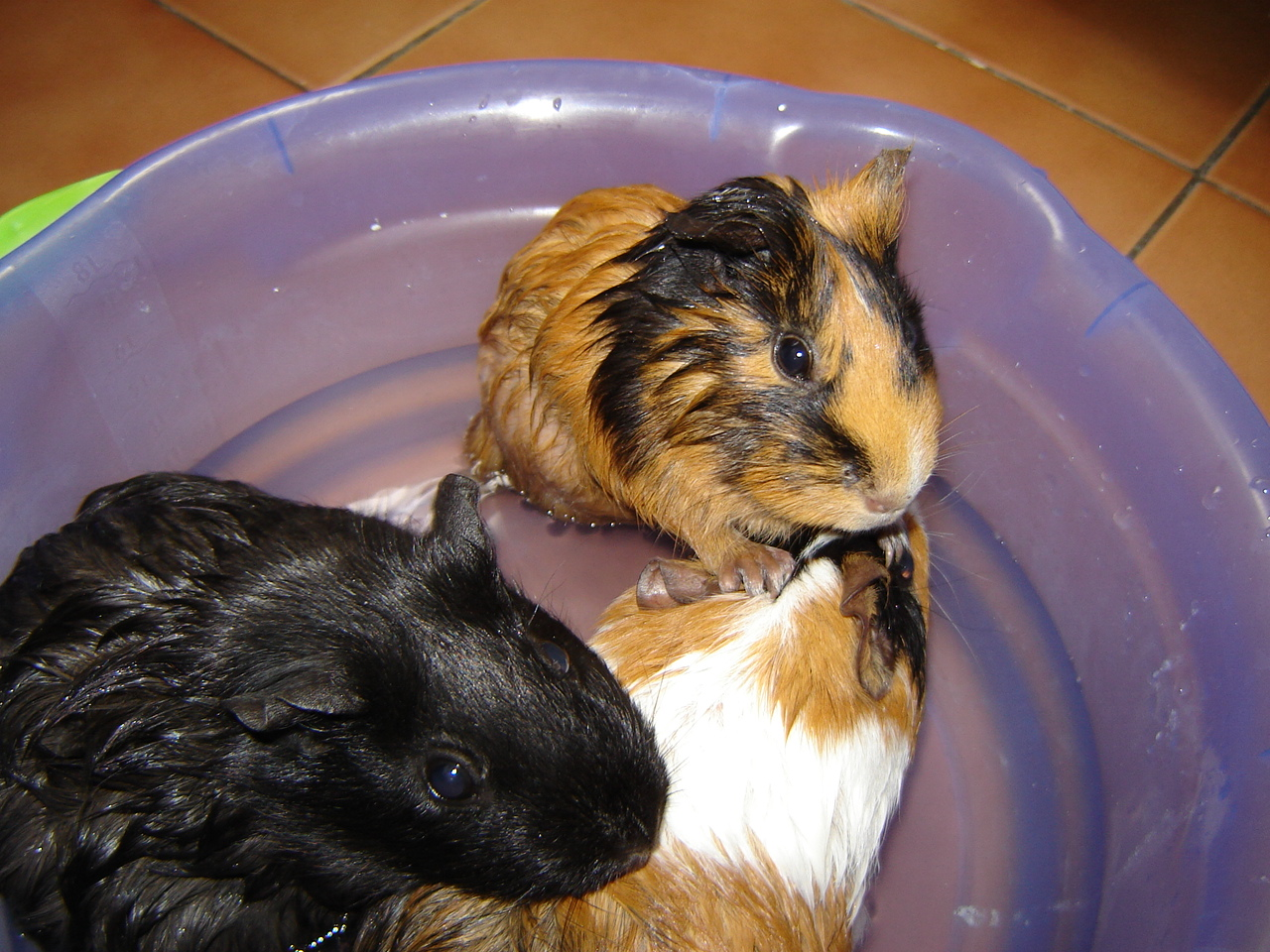 guinea pig